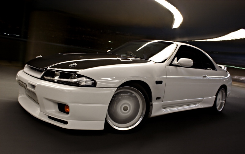 Author: Wilbur Palijo